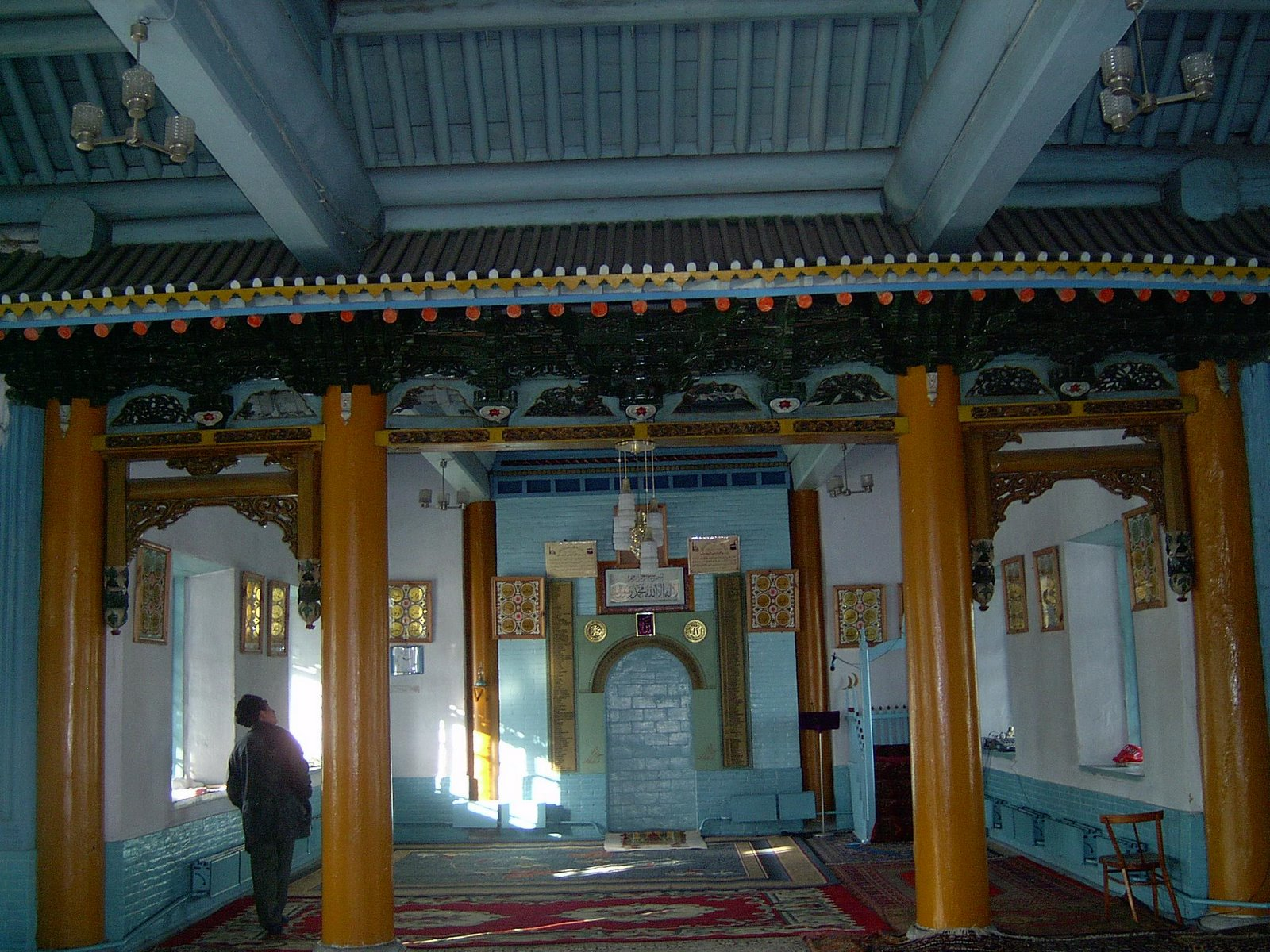 Inside the Dungan Mosque in Karakol, Kyrgyzstan